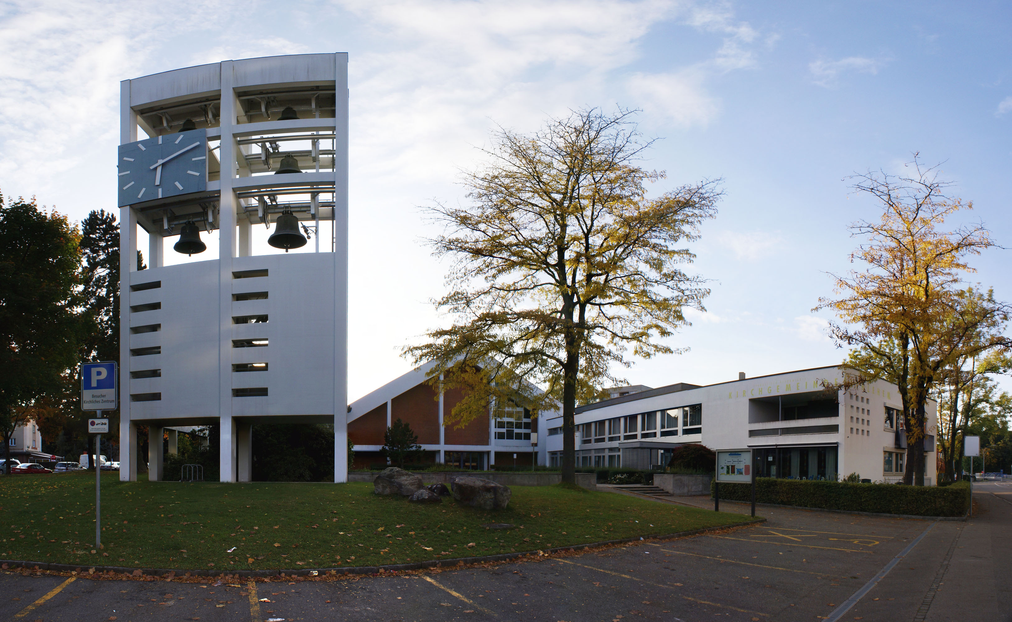 Reformed church, Bethlehem, Berne, Switzerland. Werner Küenzi, 1958-60.